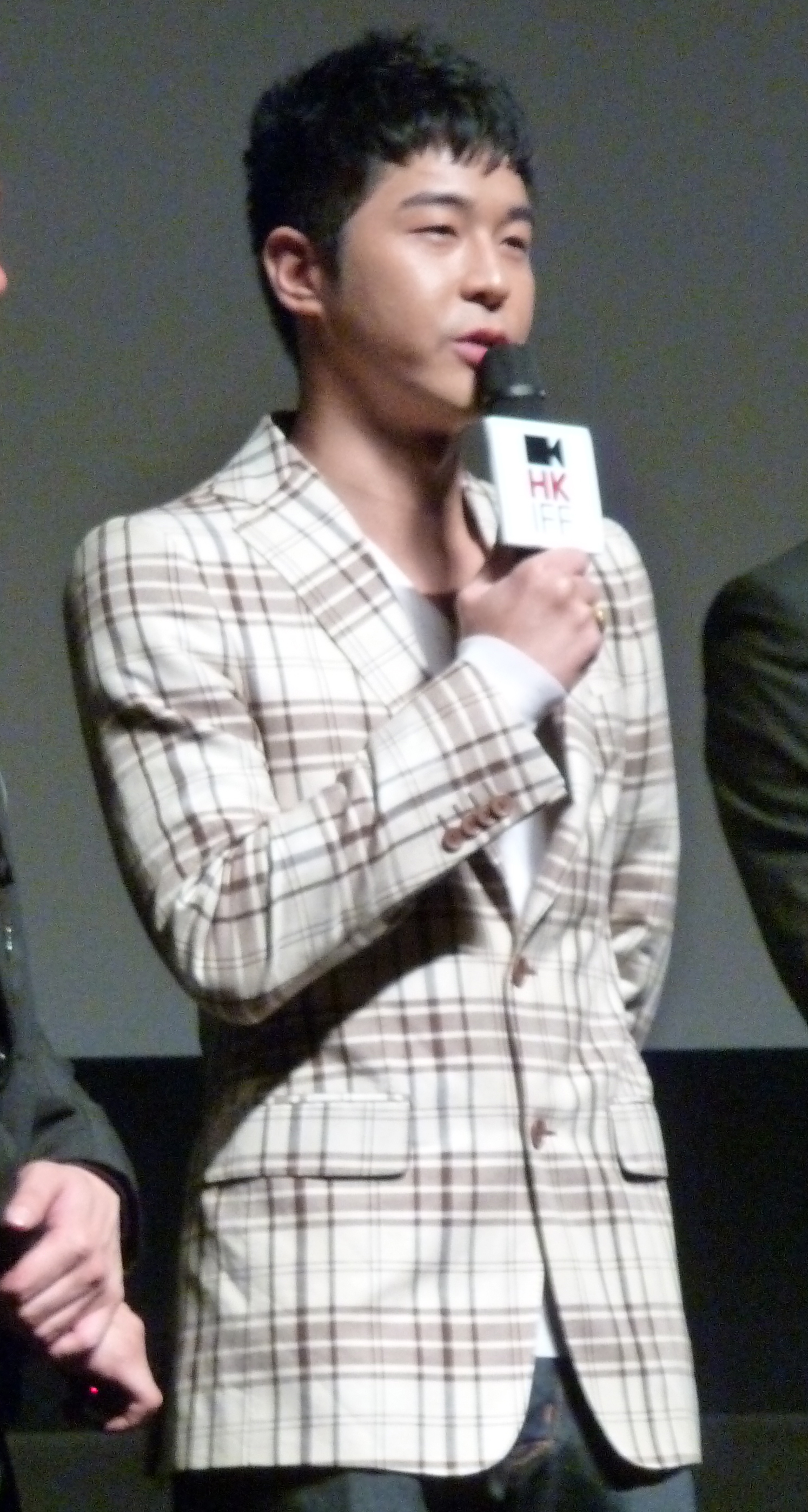 Lawrence Chou at the 2010 Hong Kong International Film Festival